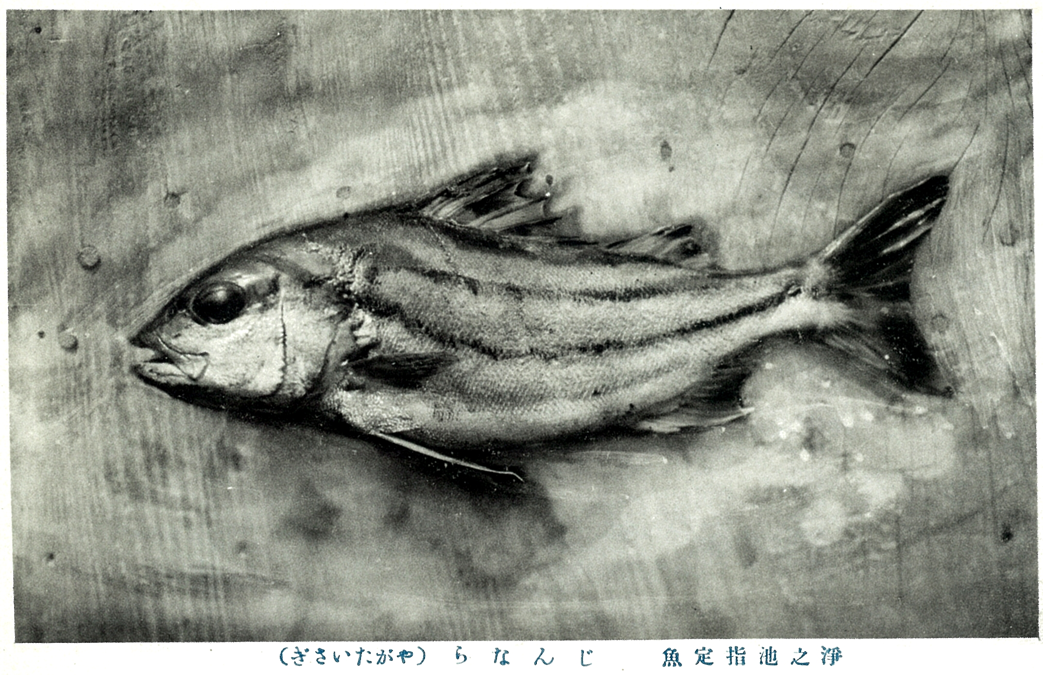 Jono-ike pond postcard. Terapon jarbua Old photographs